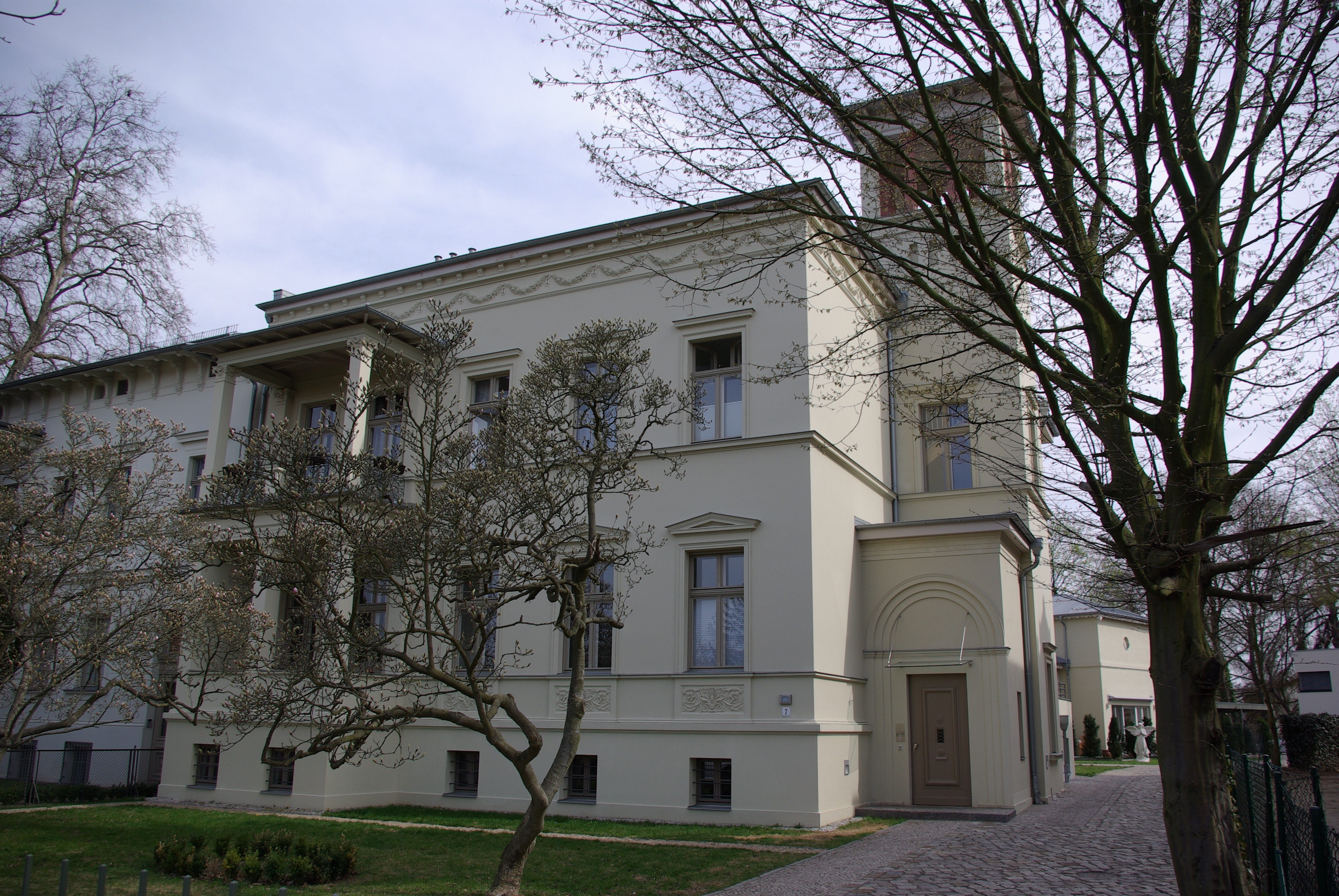 Potsdam in Germany. The house Puschkinallee 7 is a listed building.